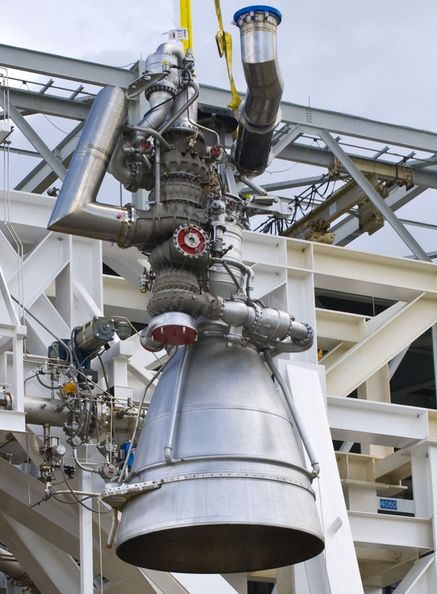 An Aerojet AJ26 rocket engine is prepared to be installed in the E-1 Test Stand at Stennis Space Center.